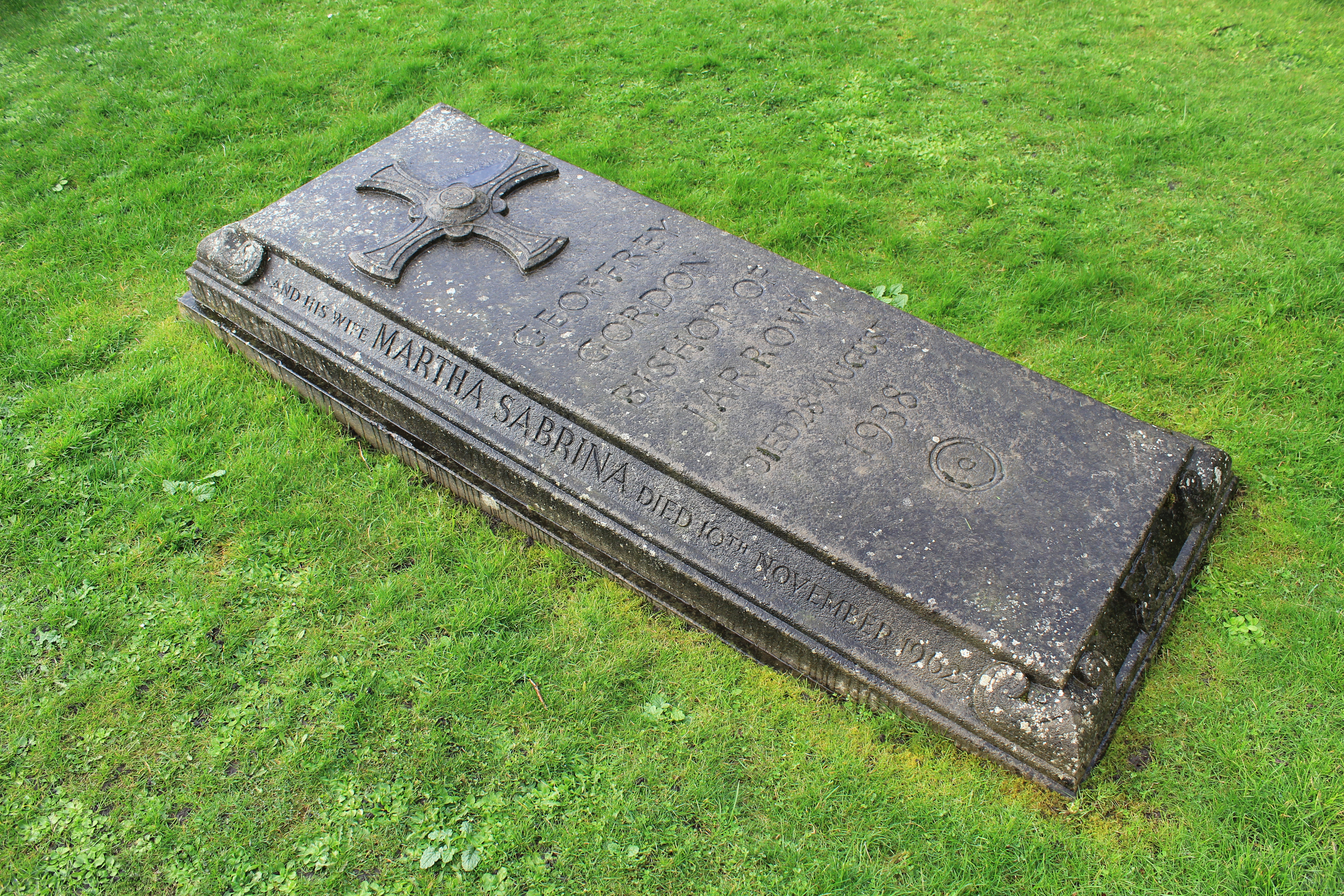 Durham Cathedral, March 2017 (42) This file was generated using equipment from Wikimedia UK, a Wikimedia local chapter.